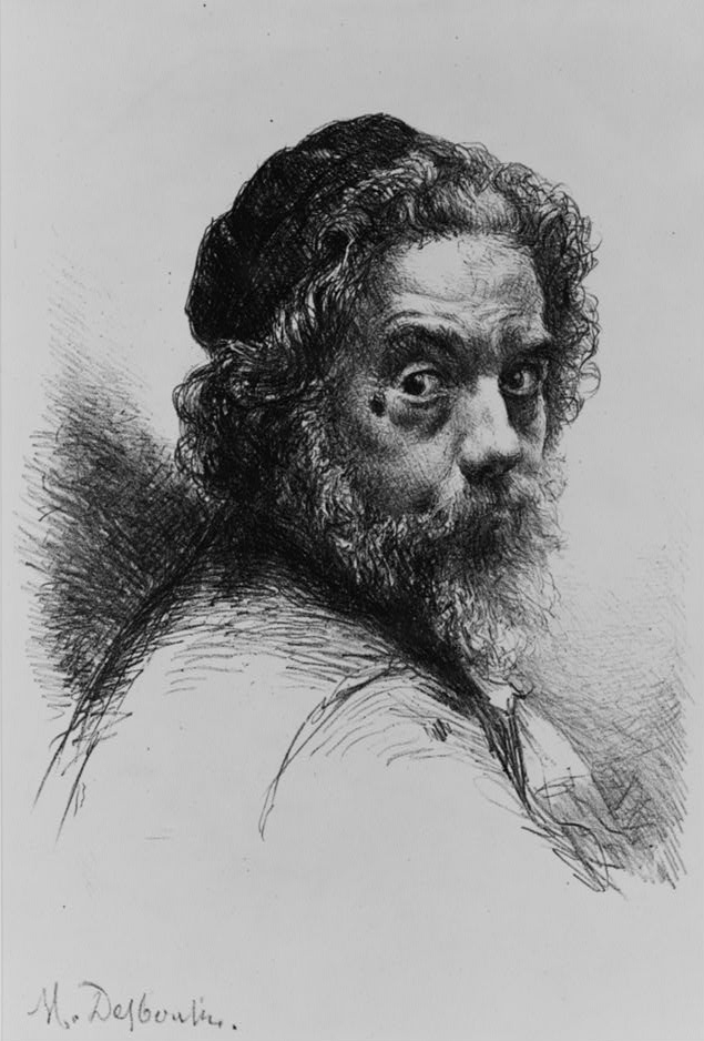 Self-portrait of French painter and printmaker Marcellin Desboutin (1823–1902)